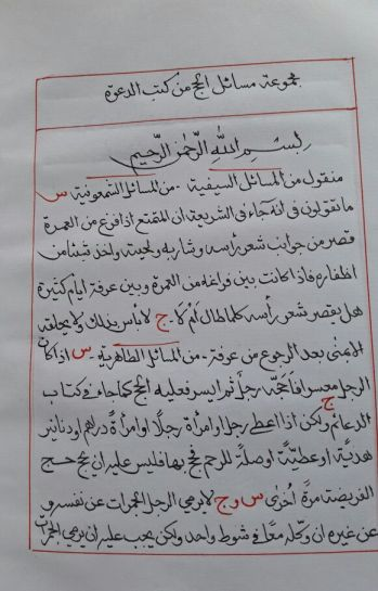 questions related to the hajj